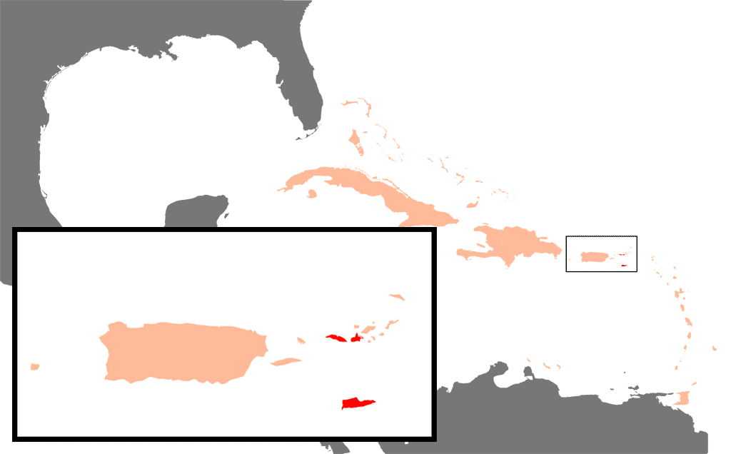 Position of the US Virgin Island in the Caribbean